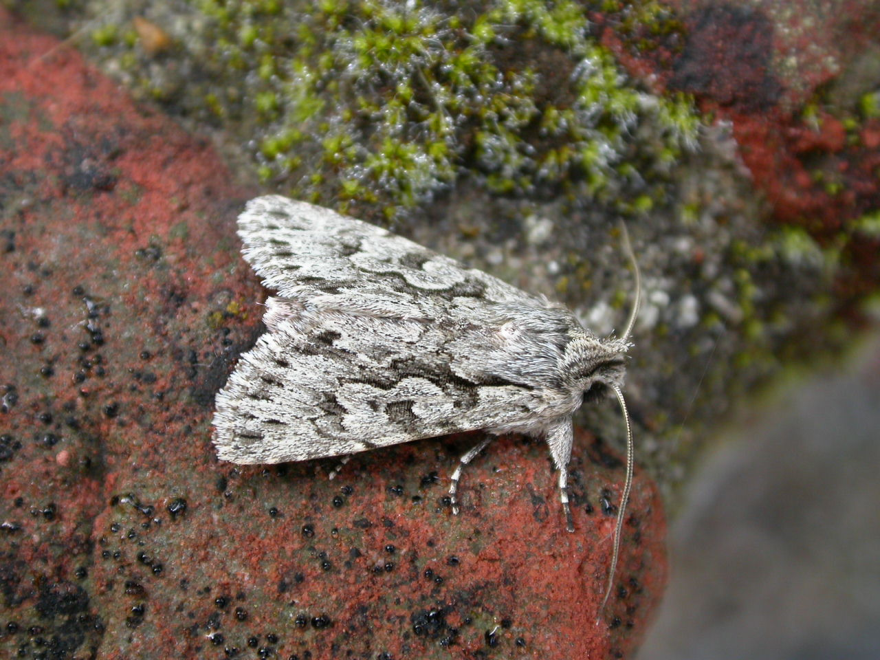 Xylocampa areola, to MV light, Walton-on-the-Naze, England, 31 March 2004